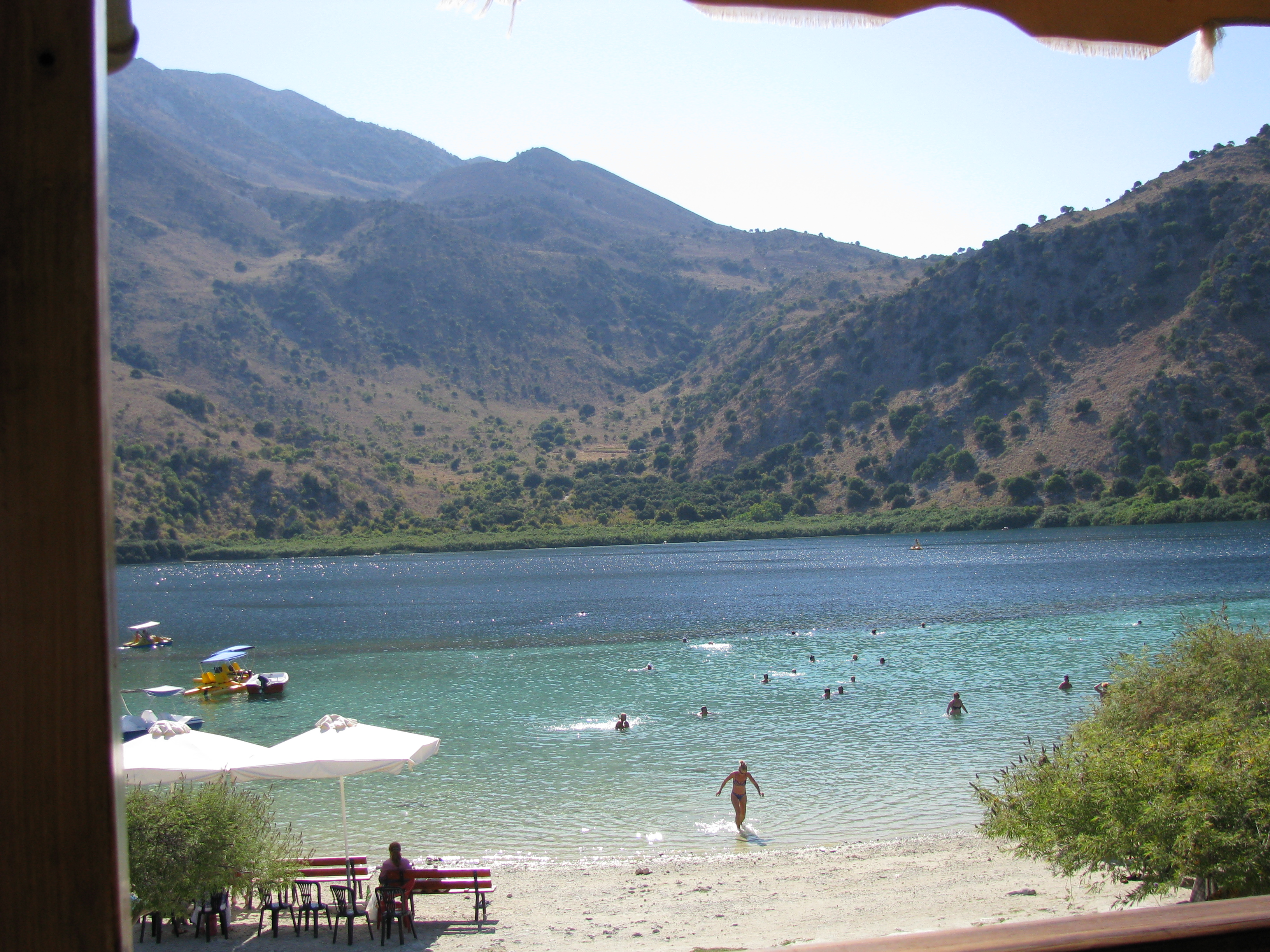 Lake of Curna